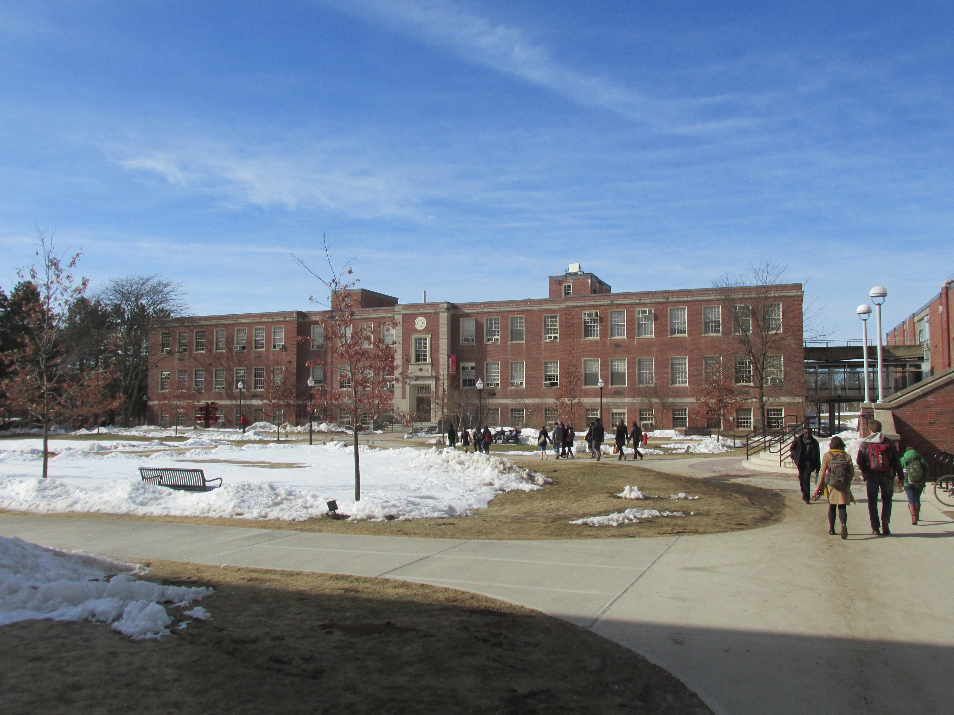 Engineering Quad and Marston Hall, University of Massachusetts Amherst, Amherst Massachusetts